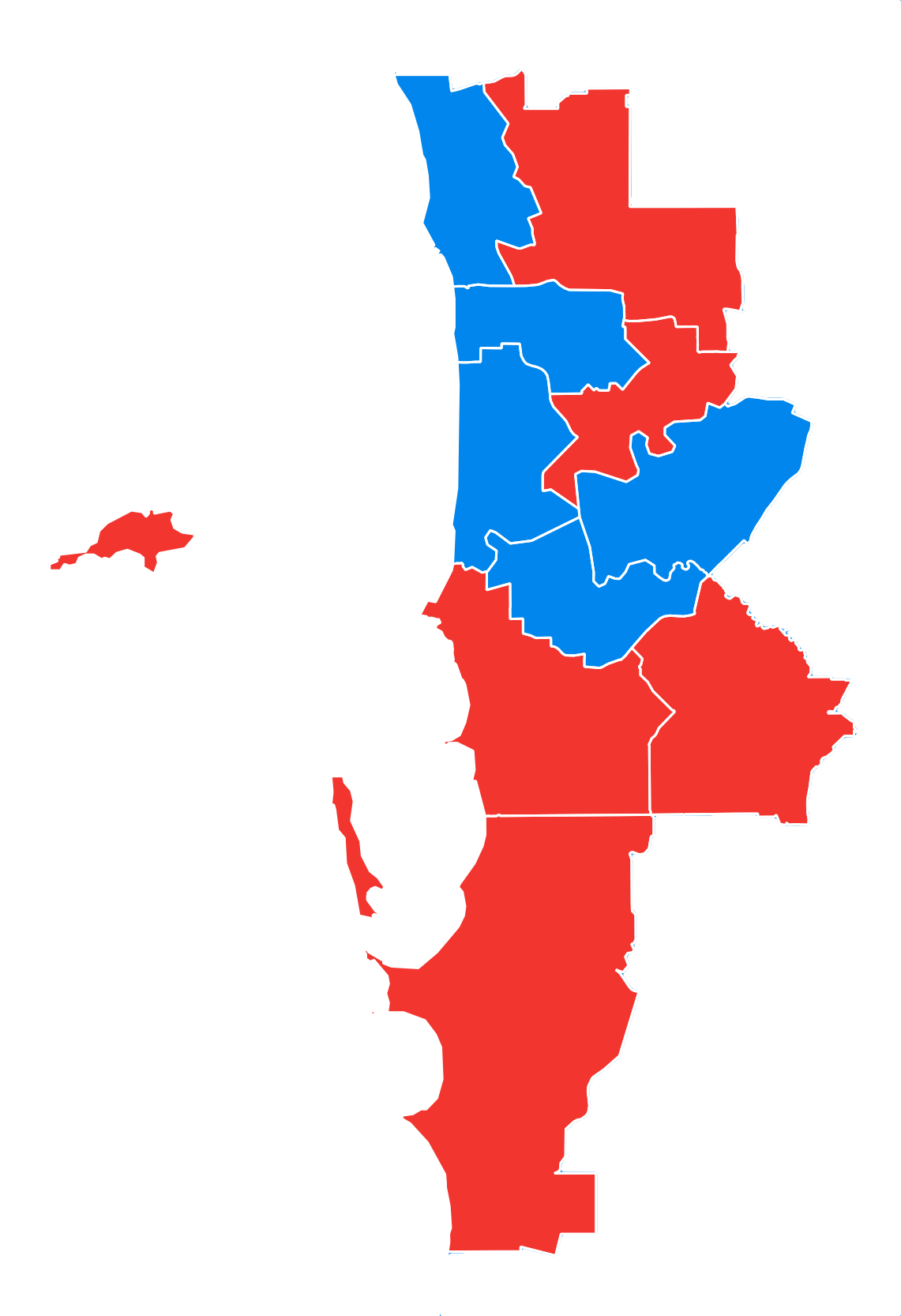 Results map of the Australian federal election, 2016 in Perth, Western Australia showing federal electorates decorated in the color representing a win by a particular party.